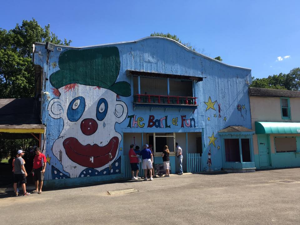 The Barl Of Fun funhouse, Bushkill Park, Easton, Pennsylvania, as of the Anniversary outing July 9th, 2017.